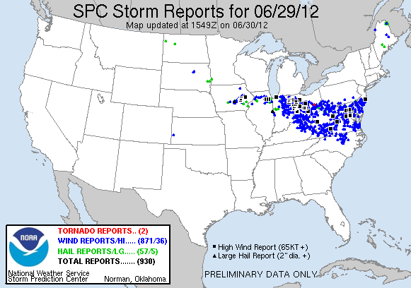 All reported storm reports from June 29, 2012, which featured a strong derecho responsible for many of the wind reports that you can see in blue across the Ohio Valley region.